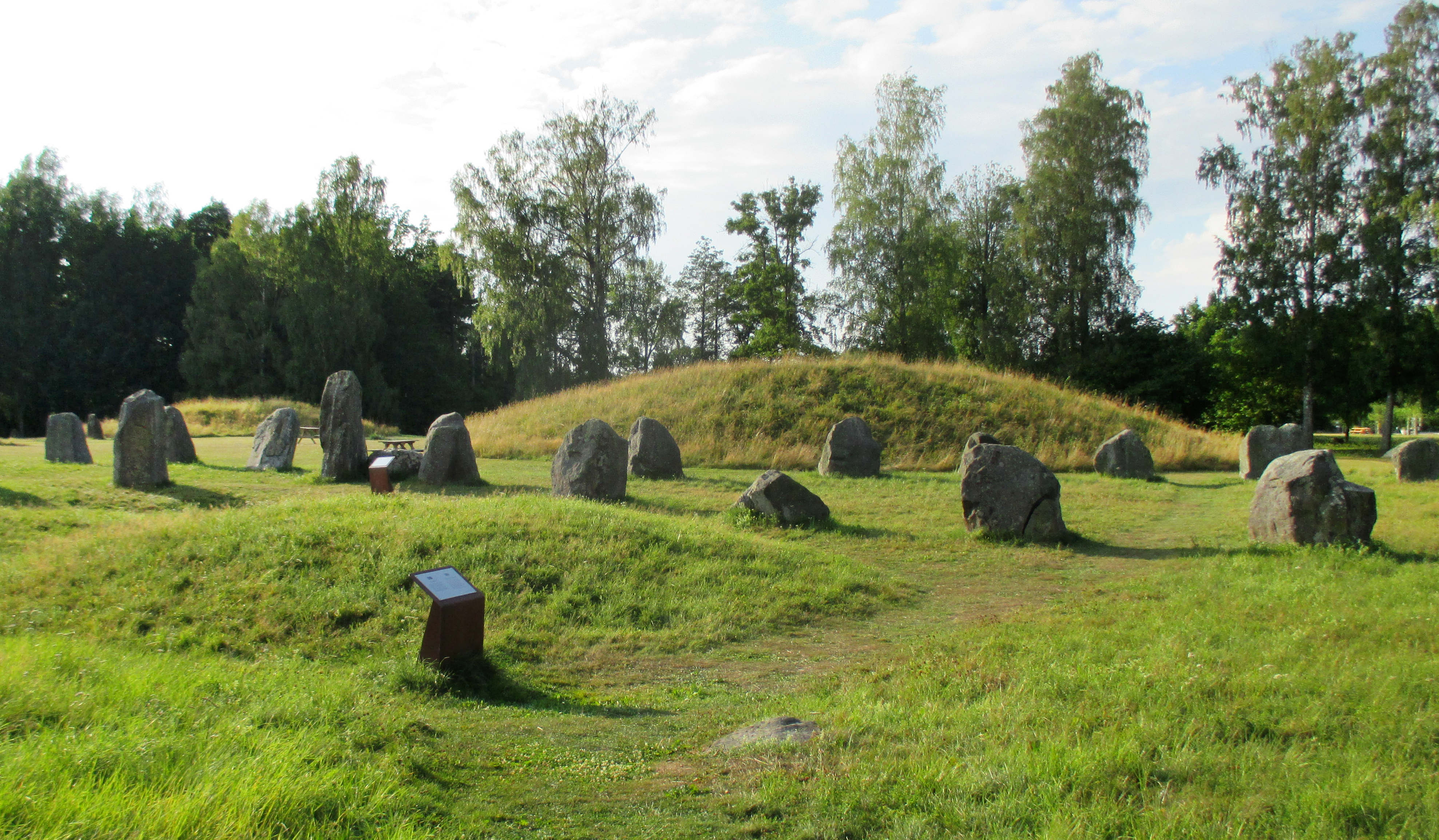 Anundshög in Västerås municipality, Västmanland, Sweden.